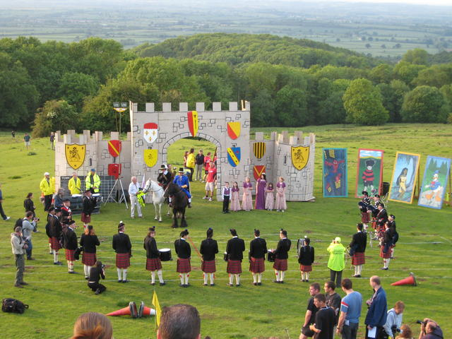 The opening of the (Cotswold) Olimpick Games: a man dressed as Robert Dover rides under a mock up of a castle gate to the tune of bagpipes and drums. The four portraits of copyrighted animated characters are too far, indistinct, and a non-substantial component of the overall picture, thus qualifying for de minimis.